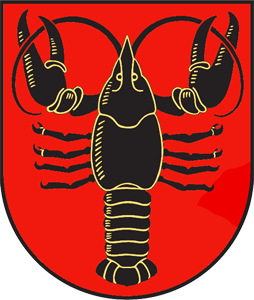 Auce, Latvia coat of arms